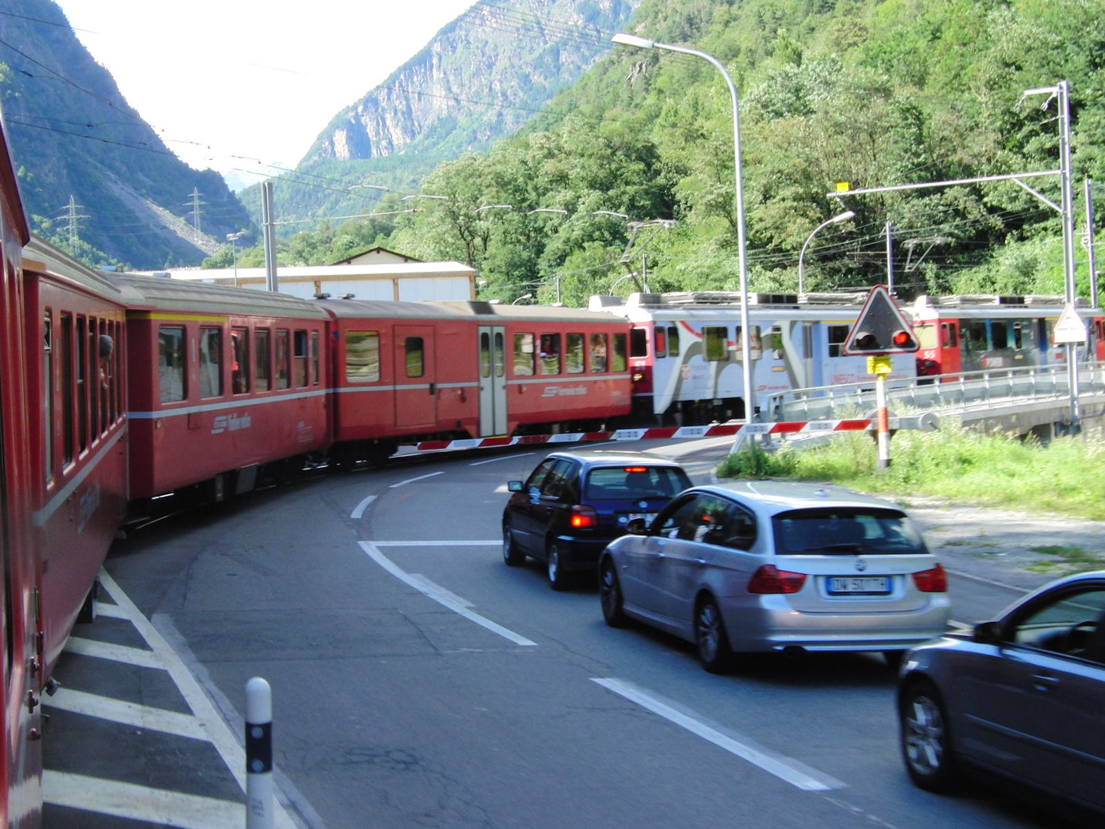 Road traffic waits for a Bernina railway train to cross the road/rail river bridge over the river Poschiavino at Campocologno just North of Swiss-Italian border